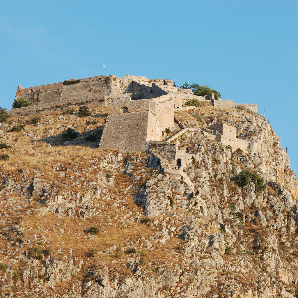 Acropolis in Nafplion and Middle Age castle